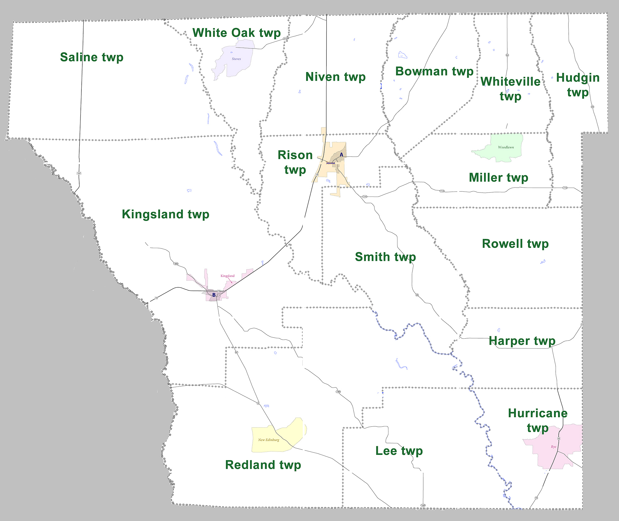 Large map showing townships in Cleveland County, Arkansas. Modified from US census map (for 2010 census) for Cleveland County, Arkansas